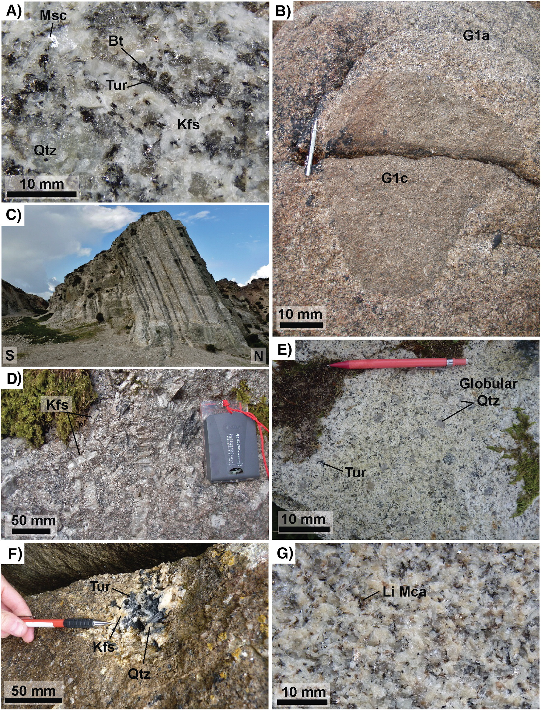 Field photographs of Cornubian Batholith granites. A — Typical G1a granite with orthoclase phenocrysts ( 25 mm) from the Dartmoor Granite. E — Globular quartz G4b granite from Carn Dean Quarry, Land's End Granite. F — Pegmatitic pocket dominantly comprising tourmaline, orthoclase and quartz within G3a granite, Land's End Granite. G — Typical topaz (G5) granite texture, equigranular with abundant Li mica, Tregonning Granite. Mineral name abbreviations: Kfs = potassium feldspar, Bt= biotite, Msc = muscovite, Qtz = quartz, Tur = tourmaline, Mca = mica. From: Simons, B.; Andersen, J. C.Ø.; Shail, R.K.; Jenner, F.E. (2017) "Fractionation of Li, Be, Ga, Nb, Ta, In, Sn, Sb, W and Bi in the peraluminous Early Permian Variscan granites of the Cornubian Batholith: Precursor processes to magmatic-hydrothermal mineralisation", Lithos, Volumes 278–281, Pages 491–512, Figure 2.